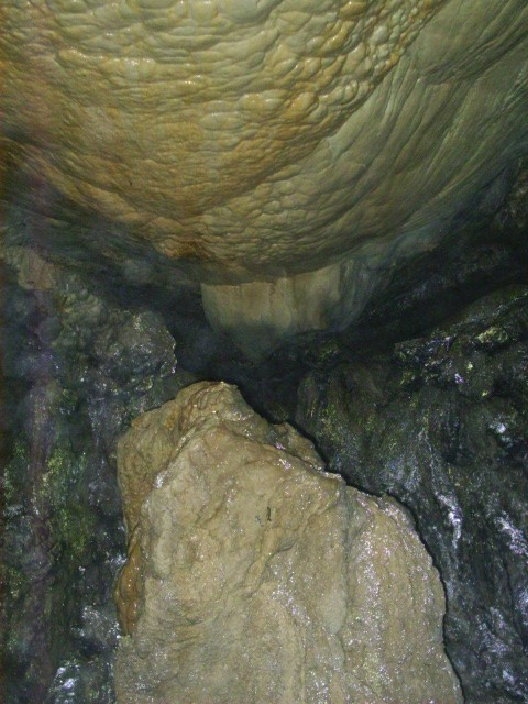 Muževa Hiža Cave in Croatia